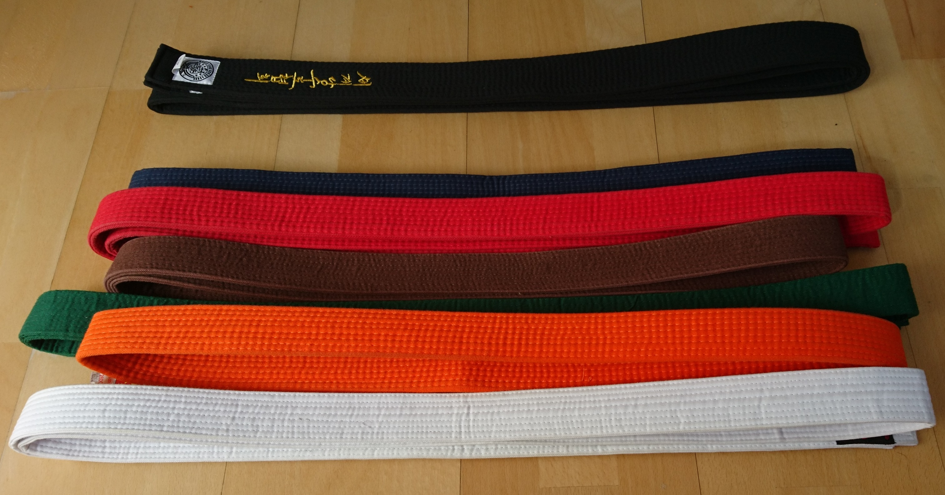 Tang Soo Do Belts ranging by grade (from white to black belt)